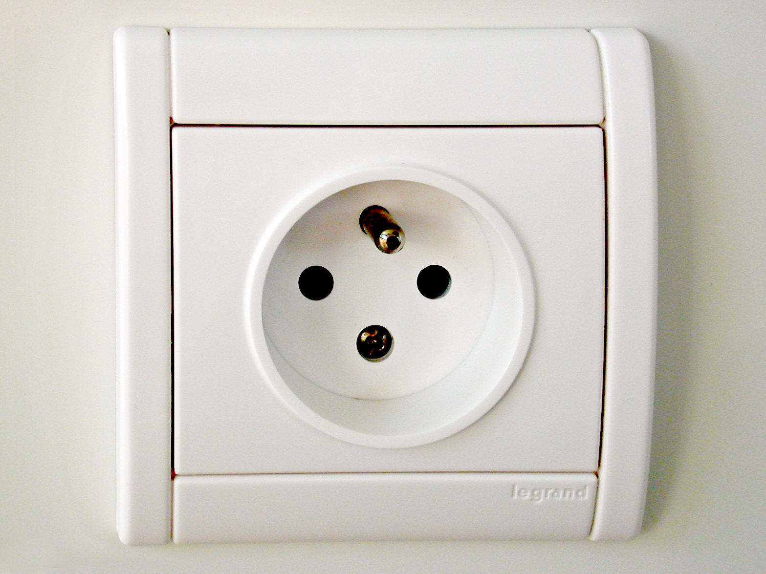 A french (Type E) power socket.